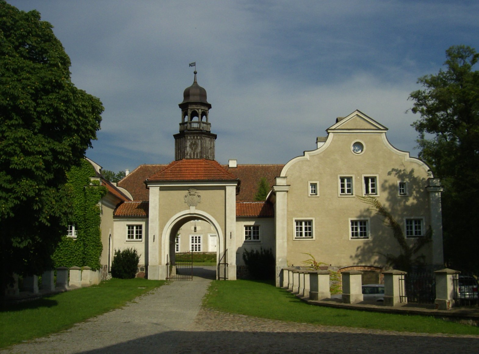 Palace in Galiny, western wing with gate